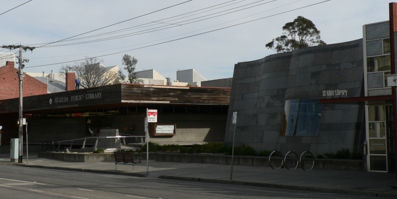 St Kilda Public Library. Carlisle Street